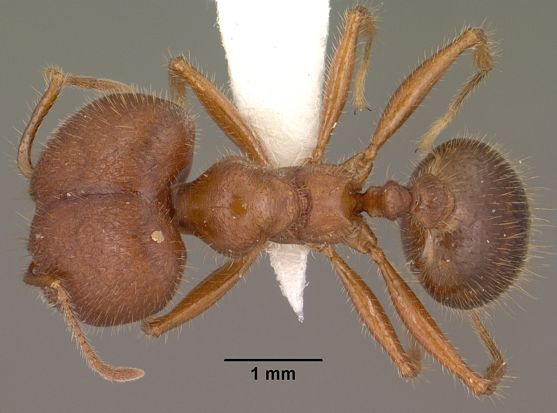 Dorsal view of ant Pheidole obtusospinosa specimen casent0102886.